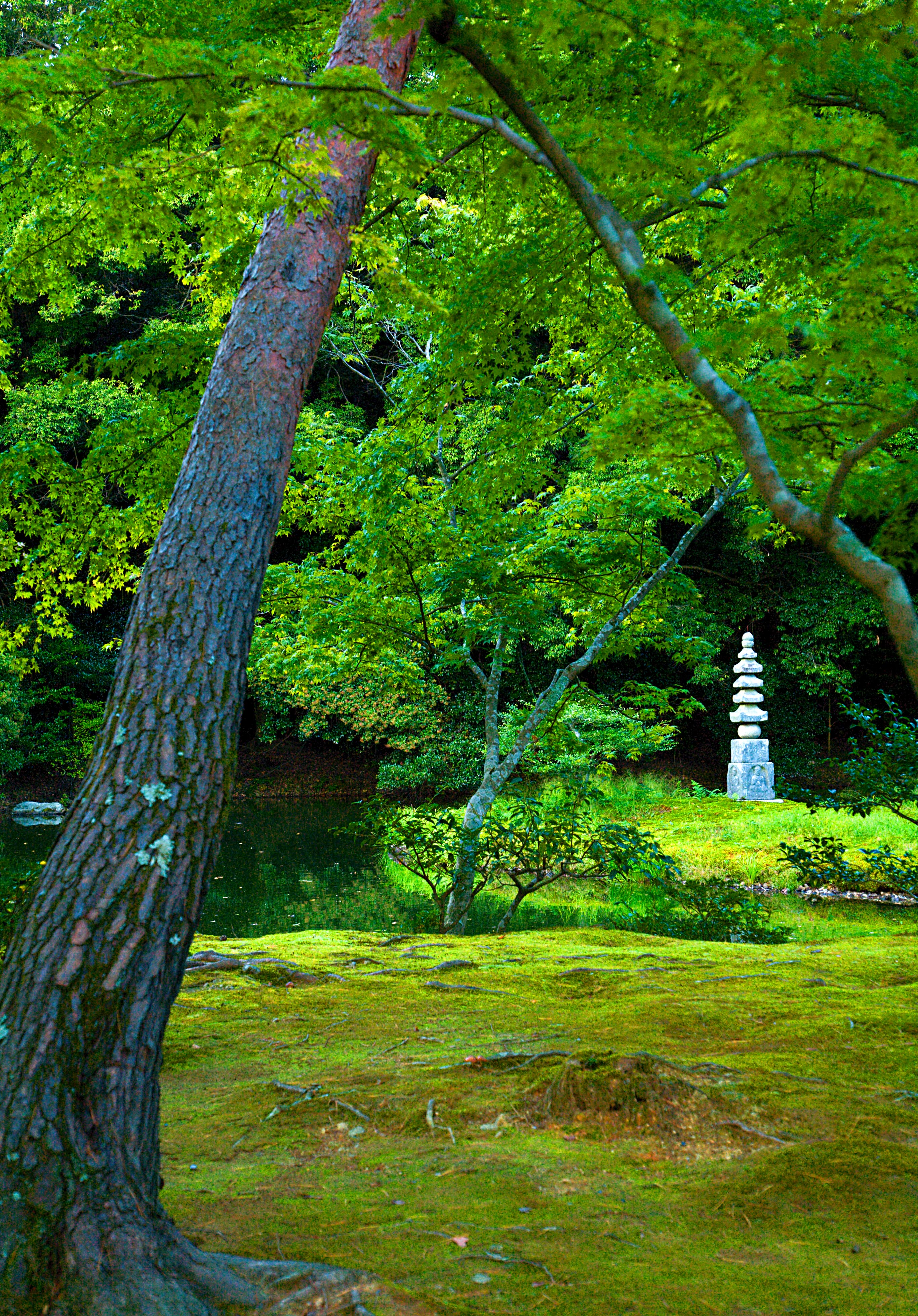 Mini pagoda in the beautiful Japanese garden of Kinkaku-ji (Golden Pavilion) Needs additional description